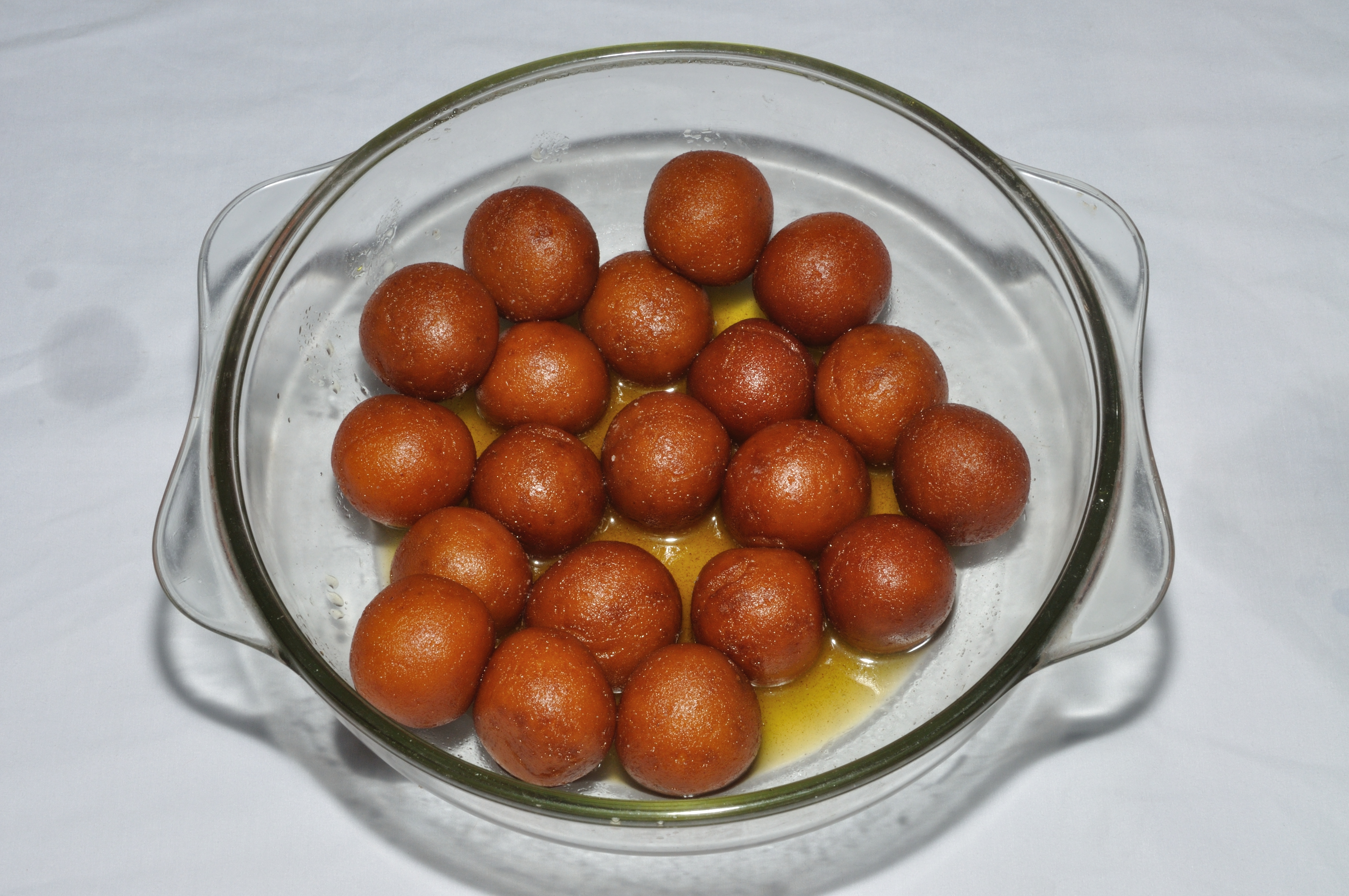 Pantua, a Bengali sweet This media file is uploaded with India loves Wikipedia event.